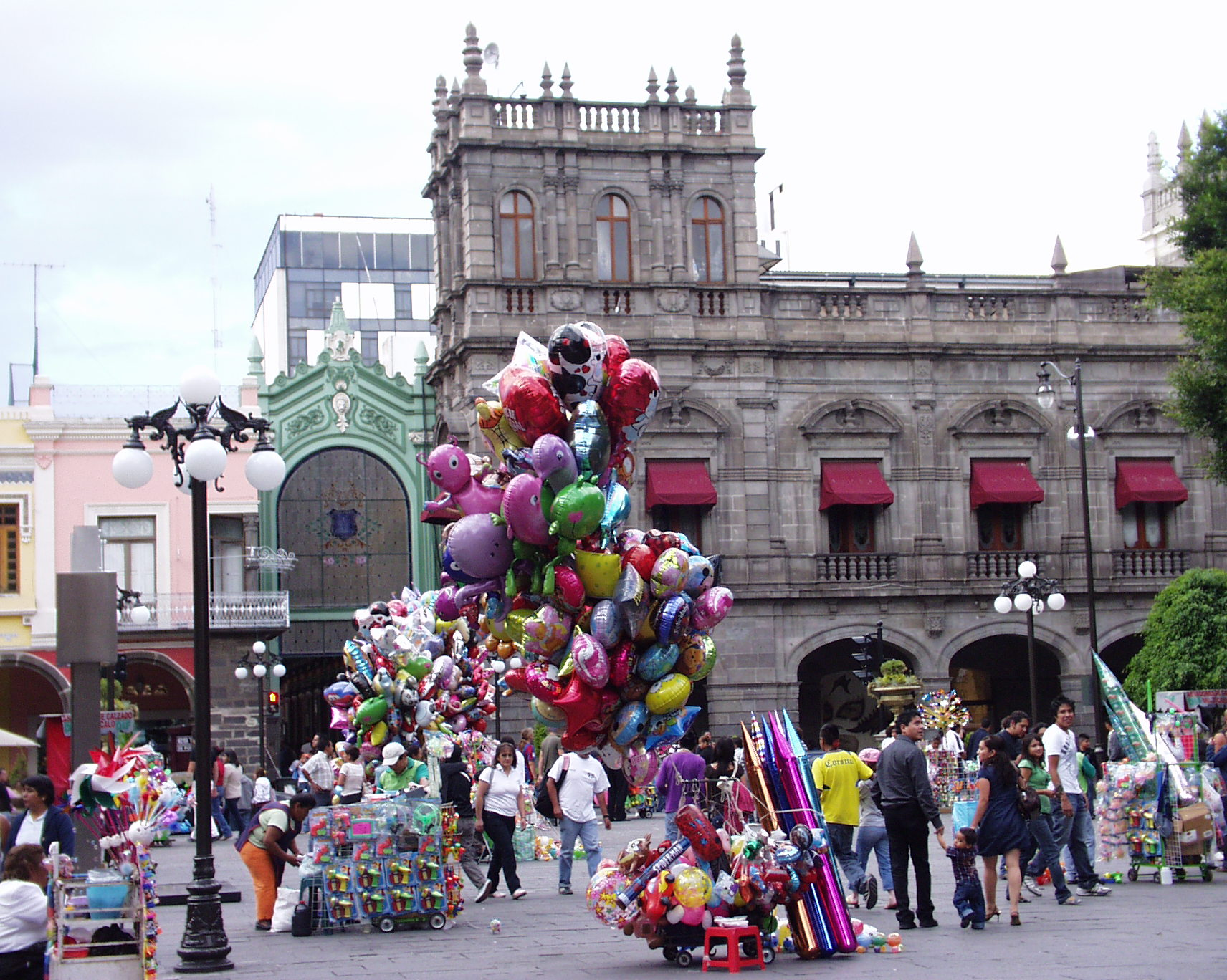 Toy balloon vendors in the Zócalo plaza — within the Historic center of Puebla of the City of Puebla, Puebla state, México.